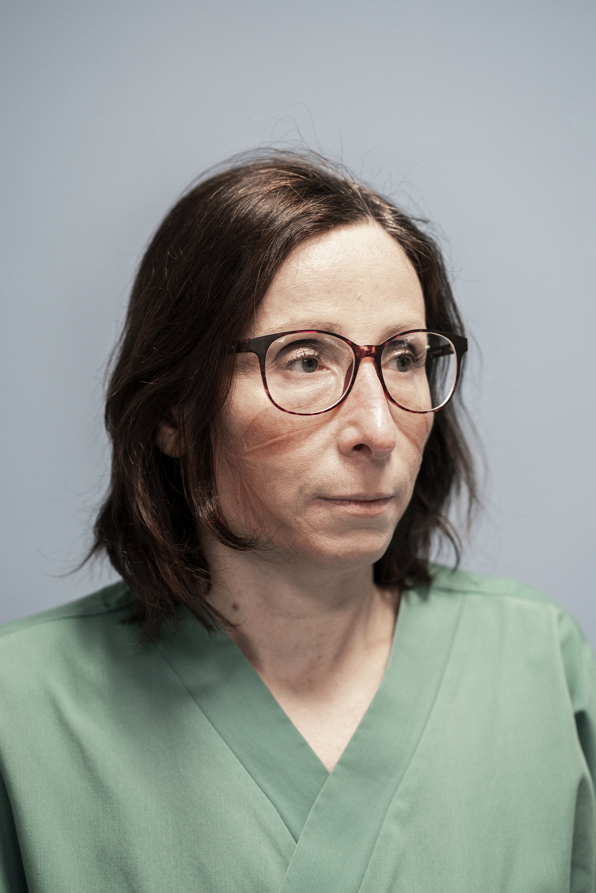 These are the doctors and nurses of the San Salvatore Hospital in Pesaro, Italy, the city of my birth and where I once again reside, which from day one has sadly been at the top of the COVID-19 contagion and death charts. I photographed them at the end of their shifts—twelve hours without a break during their fight in an unequal war. In the quiet moments in front of my camera, these embattled individuals are in a state of total abandon, victims of an exhaustion that eats away at the body and the mind, a breathlessness that renders one disoriented, detached from time and space. They would take off their masks, caps, and gloves in front of my lens, remaining motionless, looking for some sort of normalcy amid the hell they were living.